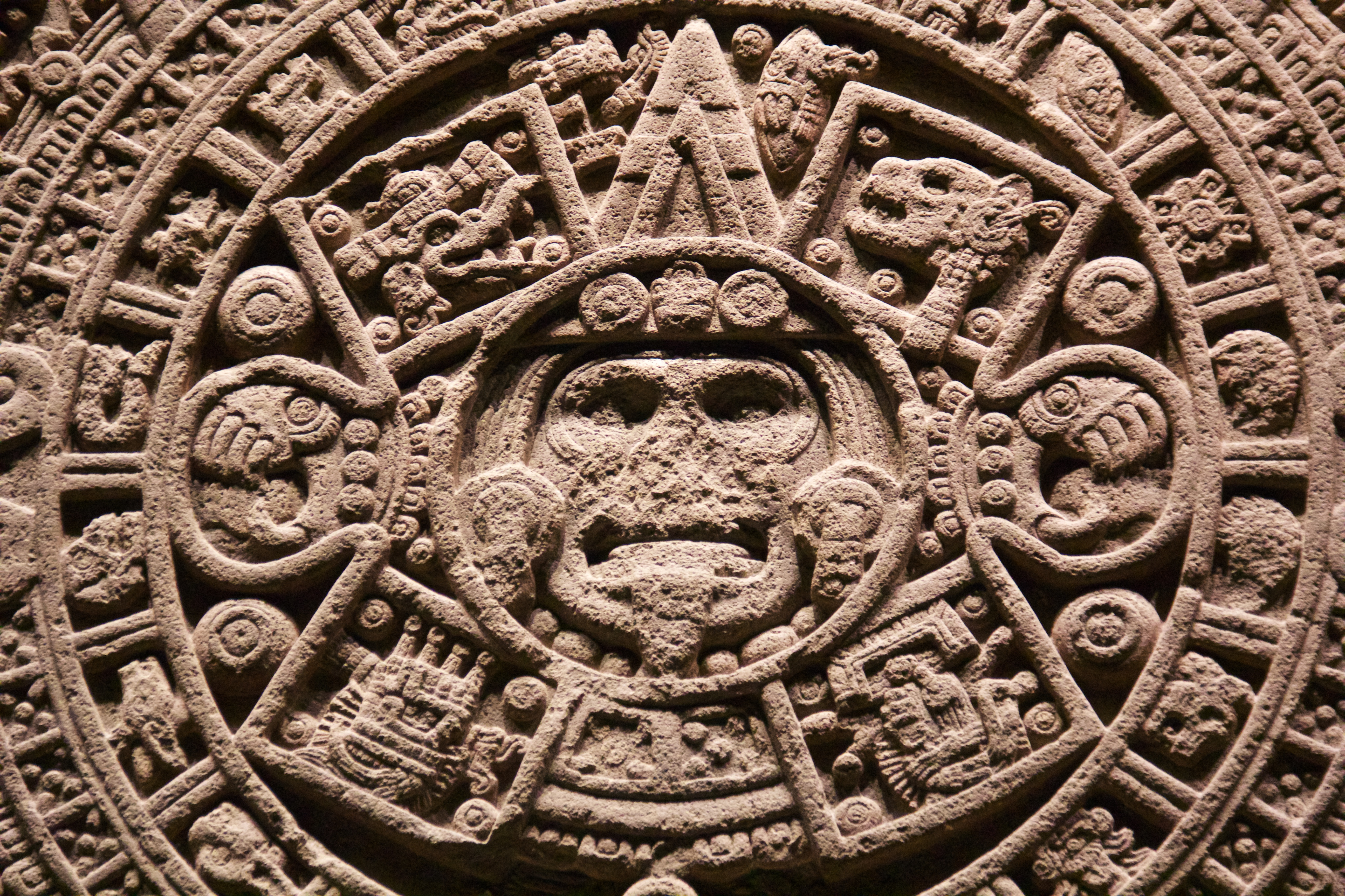 Wiki takes Antropología, at the Museo Nacional de Antropología, Mexico City, Mexico. Stone of the Sun